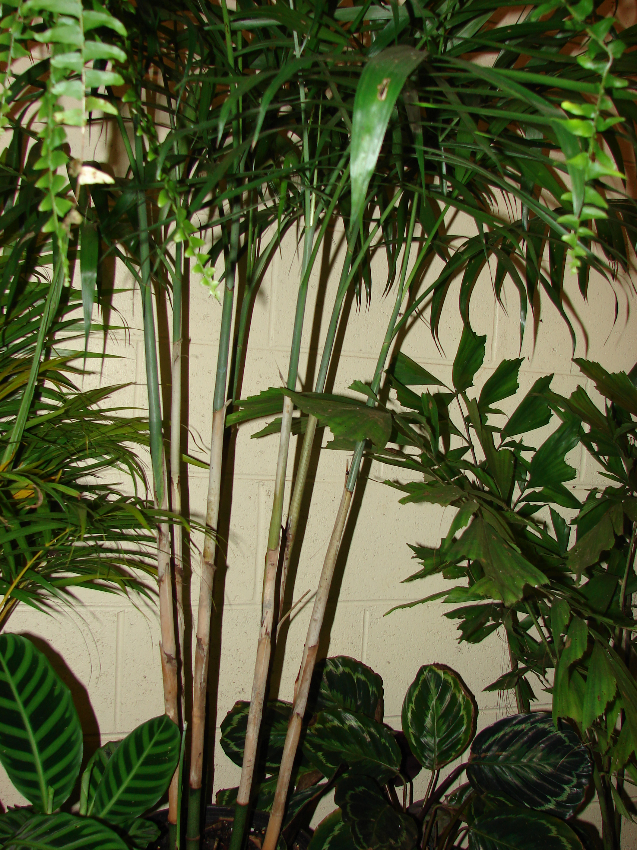 Chamaedorea seifrizii (stems). Location: Maui, Kula Ace Hardware and Nursery